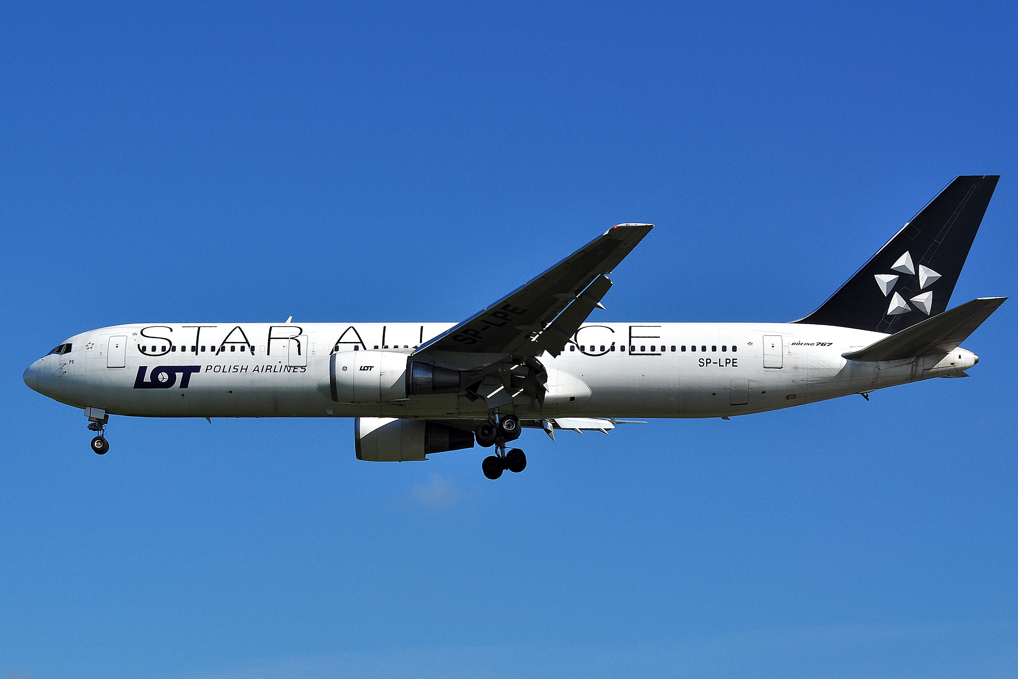 Boeing 767-341ER - Star Alliance (LOT - Polish Airlines) (reg:SP-LPE)